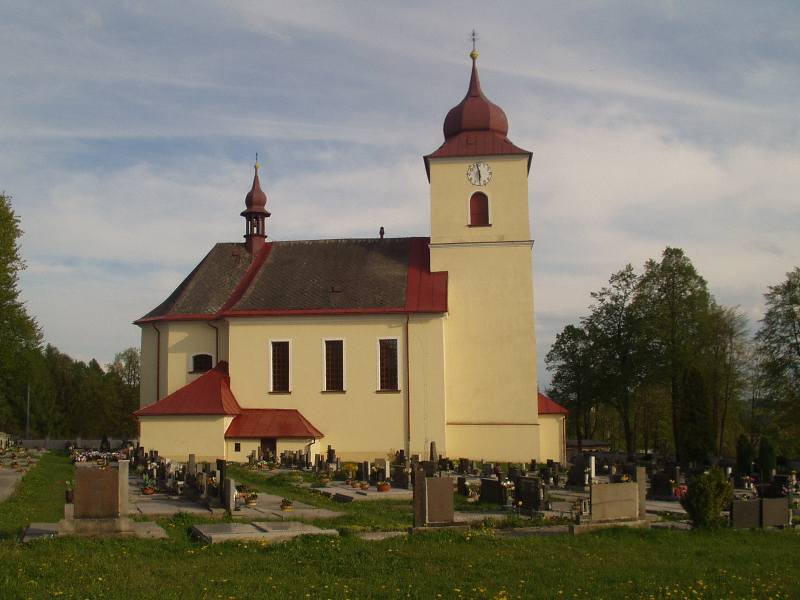 Church of the Transfiguration in Výprachtice, Ústí nad Orlicí District, Czech Republic. Current appearance from 1816.